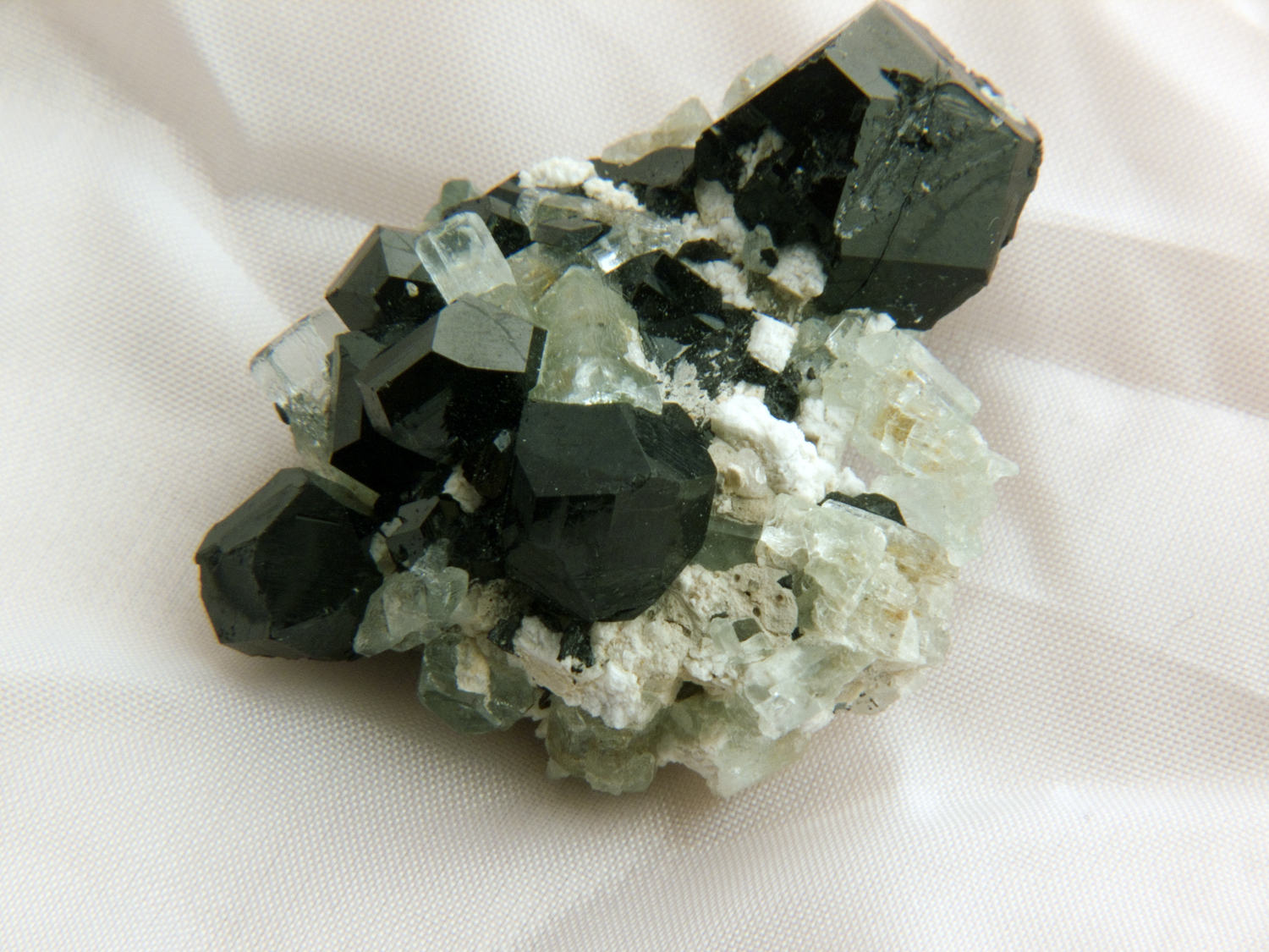 black Tourmaline and Topase